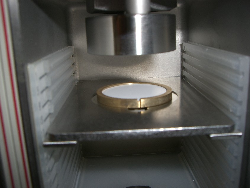 An opened up chamber to detect alpha particle with Pu-242 on the filter